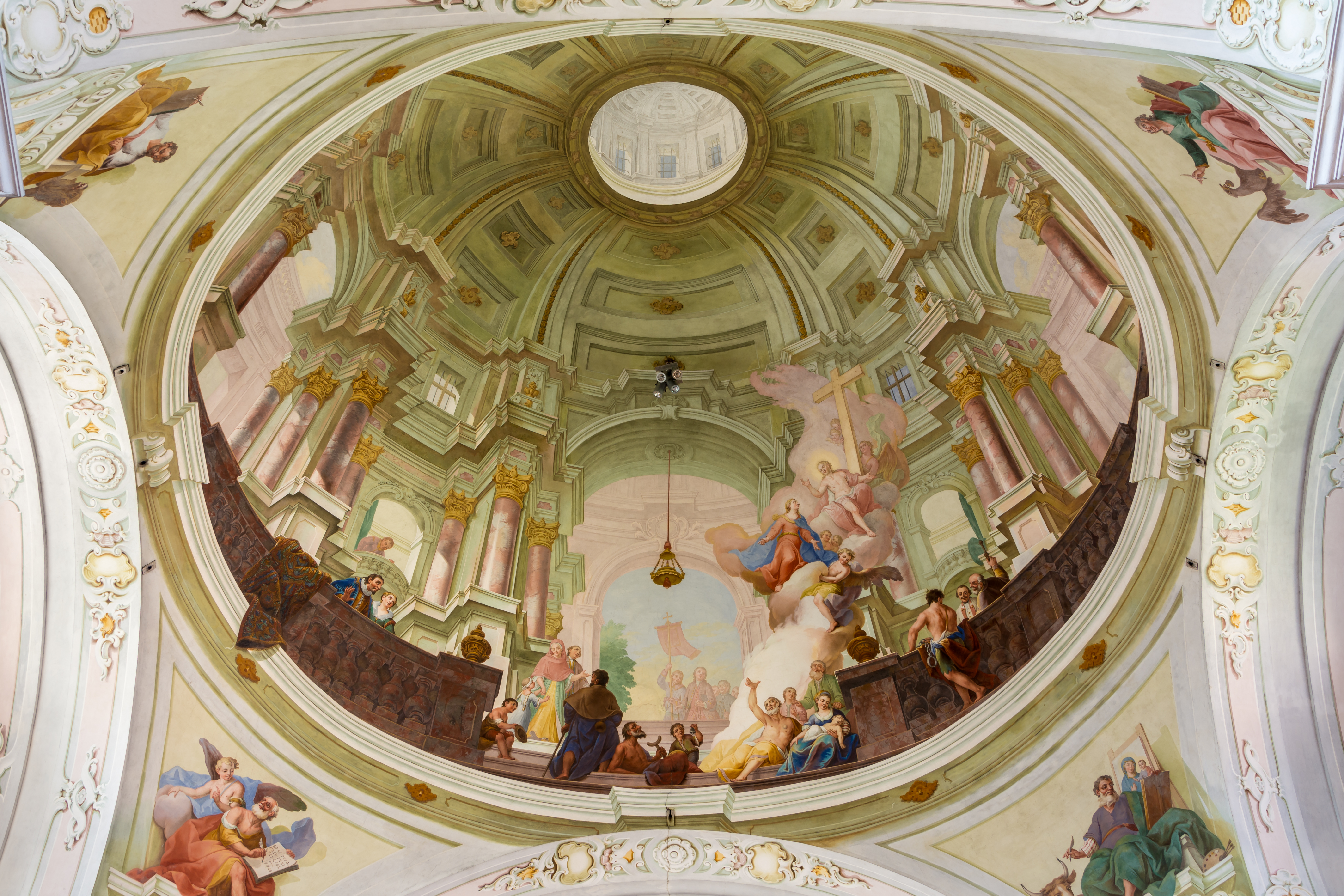 Dome fresco in the pilgrimage church of Maria Langegg (Lower Austria) by Josef Adam Mölk (1773): Mary, Salvation of the Sick